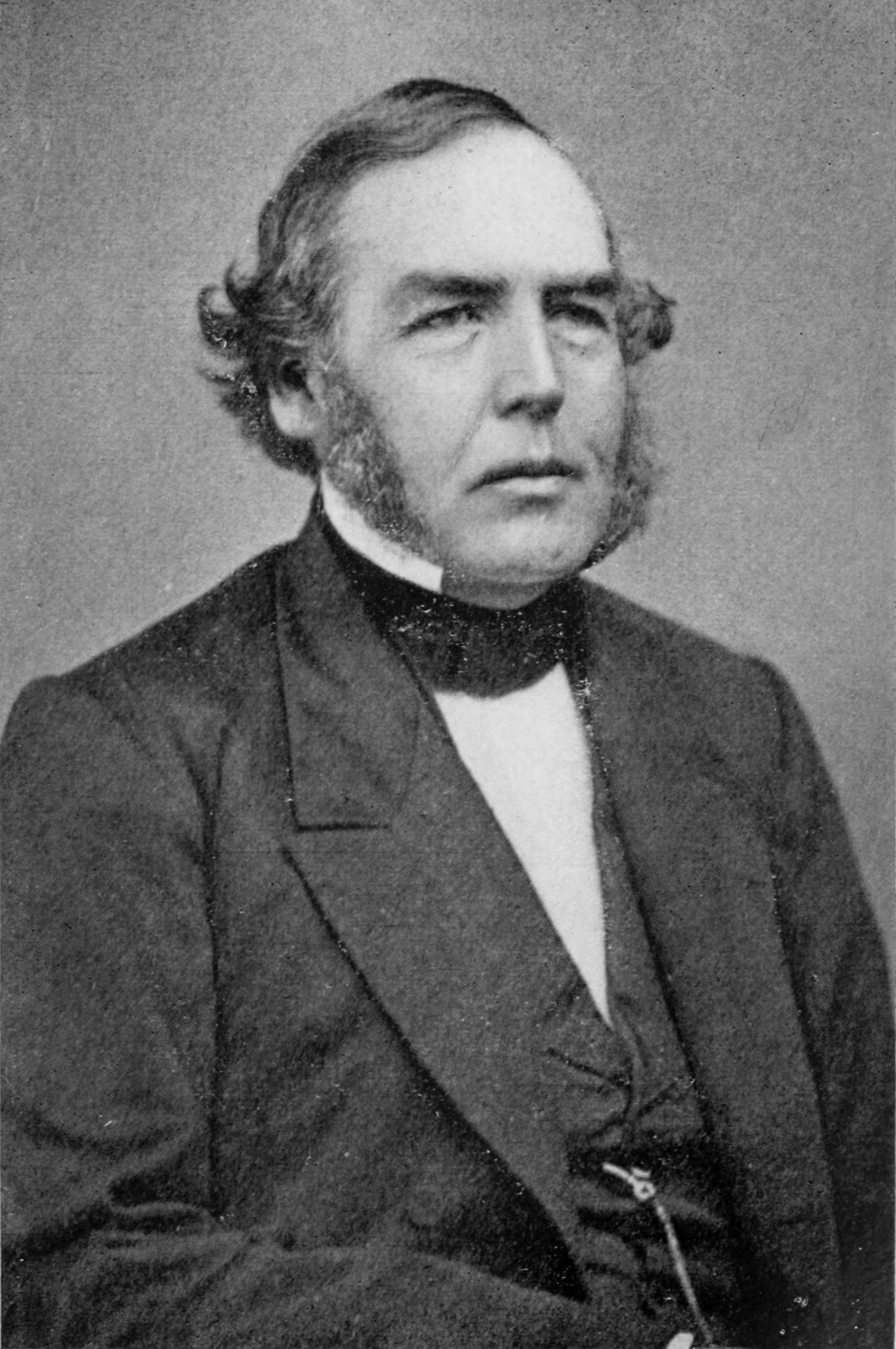 Portrait of William A. Norton from Timothy Dwight's Memories of Yale Life and Men (1903)